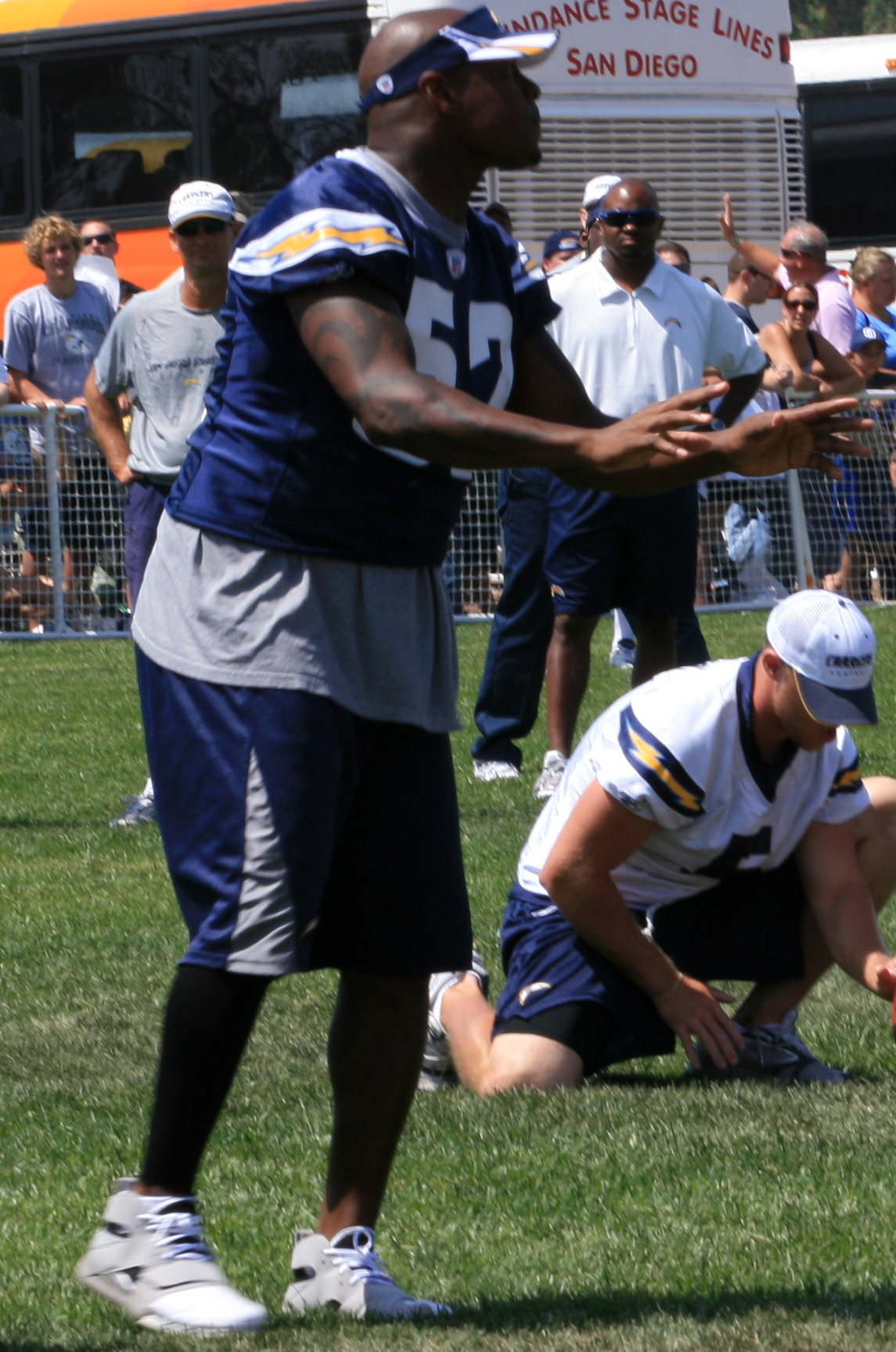 San Diego Chargers kicker Nate Kaeding approaches a football during a walk-through practice Aug. 11 at Marine Corps Air Station Miramar, Calif. The team was at the station for a military appreciation event.